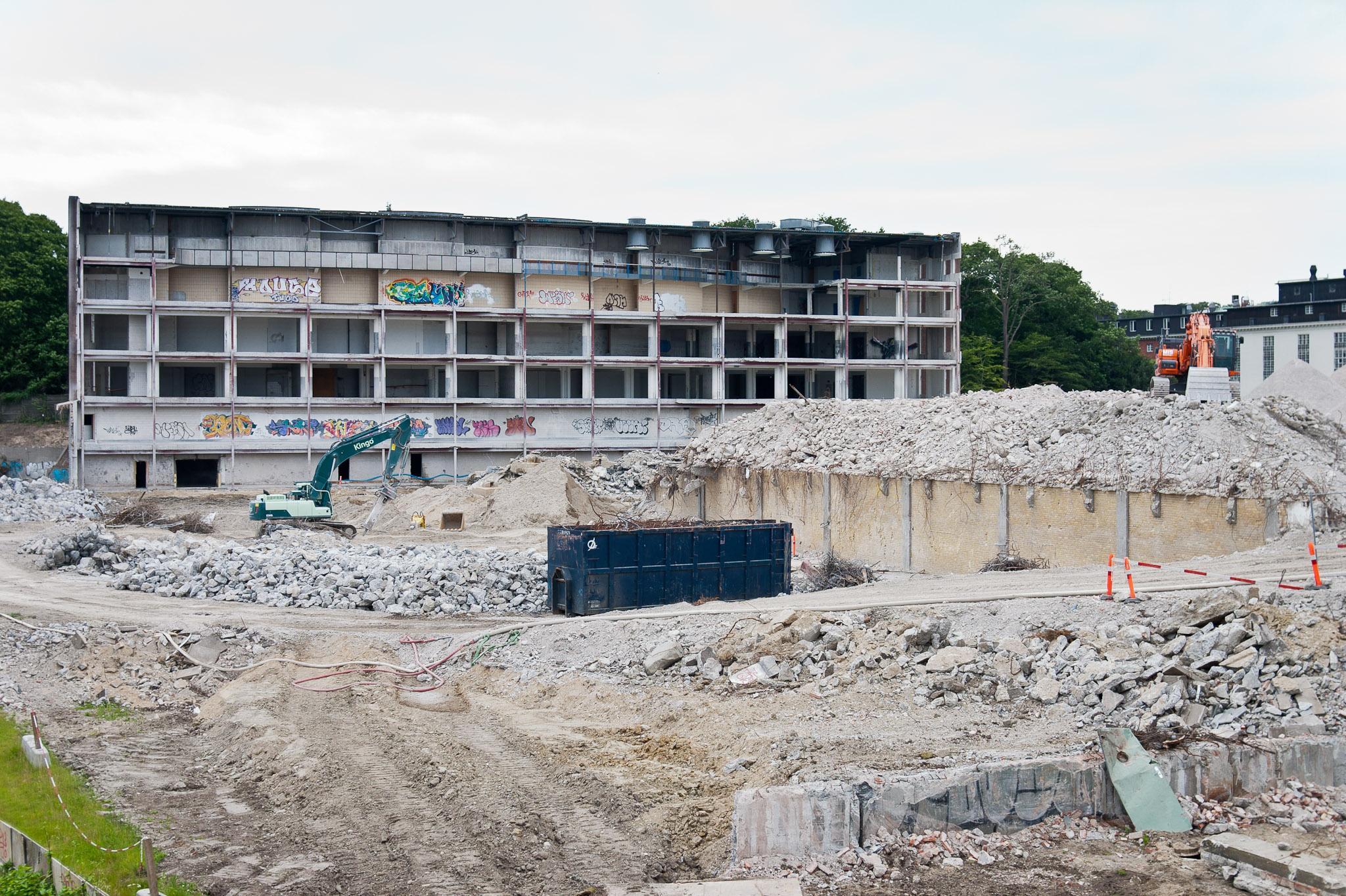 The building site near Vesterfælledvej, Valby, where some of the Carlsberg Brewery was located before demolition in 2013. The protected front of the building has not been knocked down